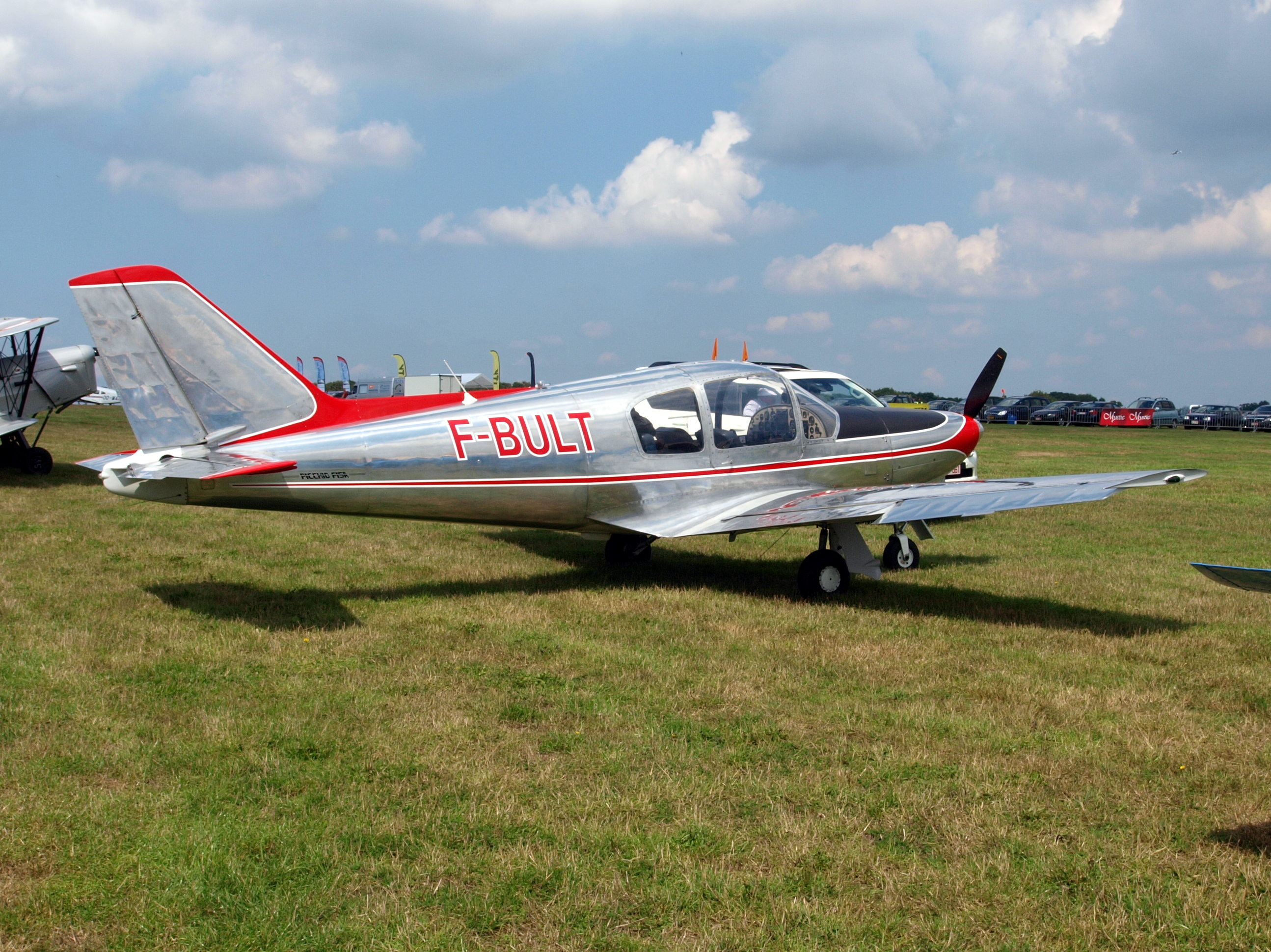 Photographed at The International Oldtimer Fly and Drive In 2010, Schaffen-Diest, Belgium.